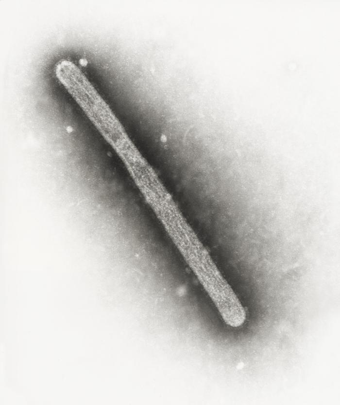 Description: This transmission electron micrograph (TEM), taken at a magnification of 150,000x, revealed the ultrastructural details of an avian influenza A (H5N1) virion, a type of bird flu virus which is a subtype of avian influenza A. At this magnification, one may note the stippled appearance of the roughened surface of the proteinaceous coat encasing the virion. Photo Credit: Cynthia Goldsmith/ Jackie Katz Copyright Restrictions: None - This image is in the public domain and thus free of any copyright restrictions. As a matter of courtesy we request that the content provider be credited and notified in any public or private usage of this image.